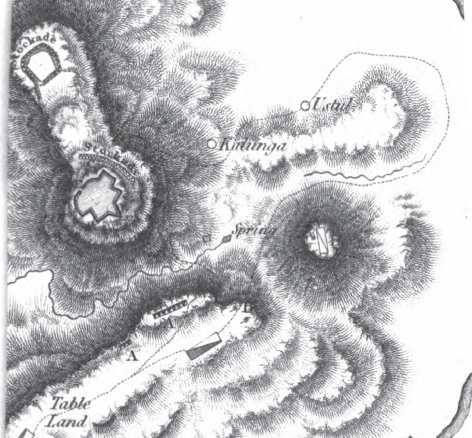 The fort of Kalunga during the Battle of Nalapani 1814